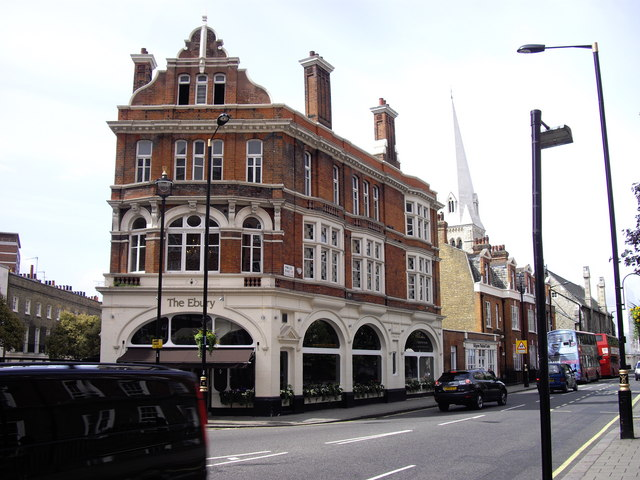 Ebury Restaurant Pimlico Road Formerly The Ebury Arms public house on junction of Pimlico Road and Ranelagh Grove Address: 11 Pimlico Road.